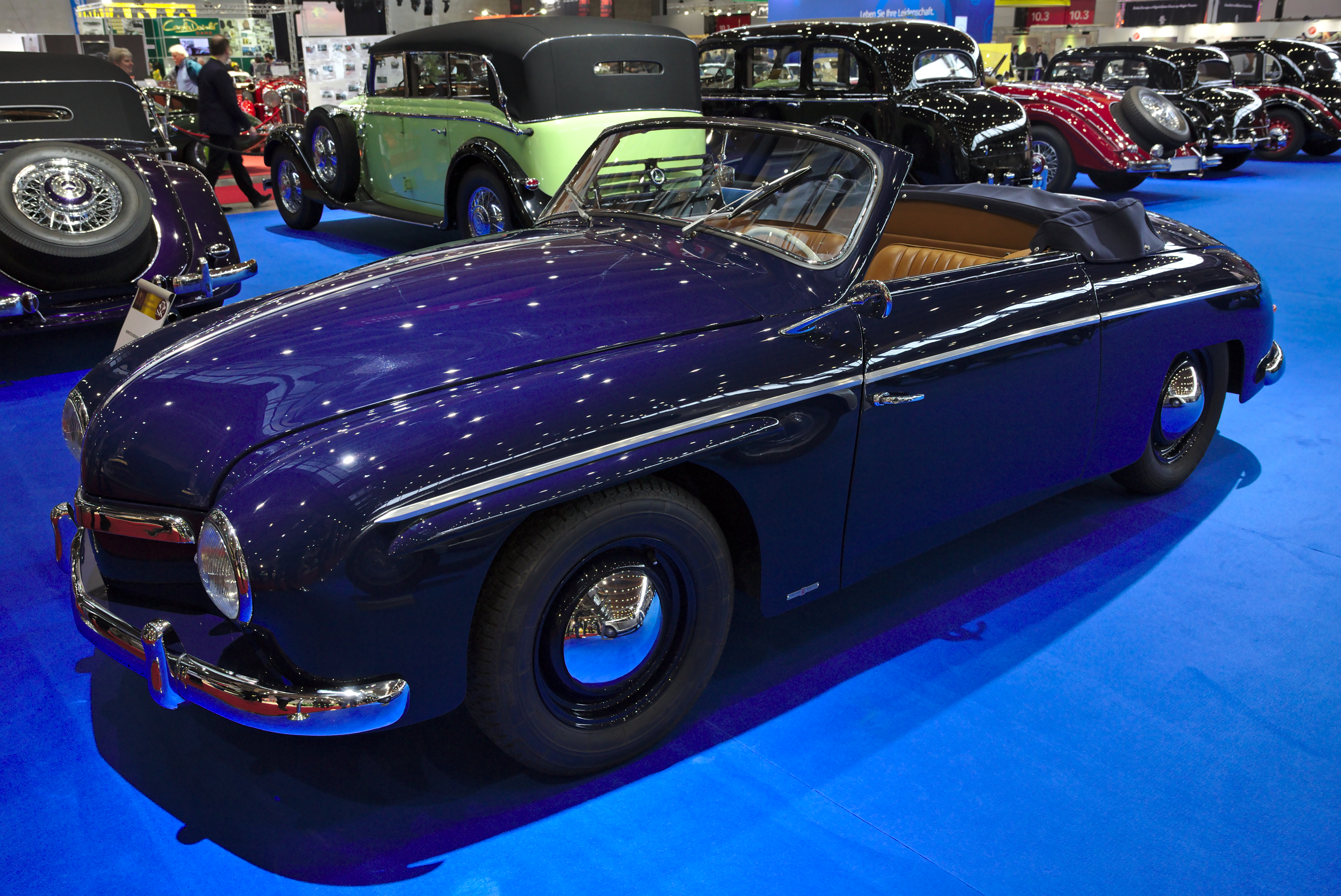 Rometsch Beeskow Volkswagen at Retro Classics 2018